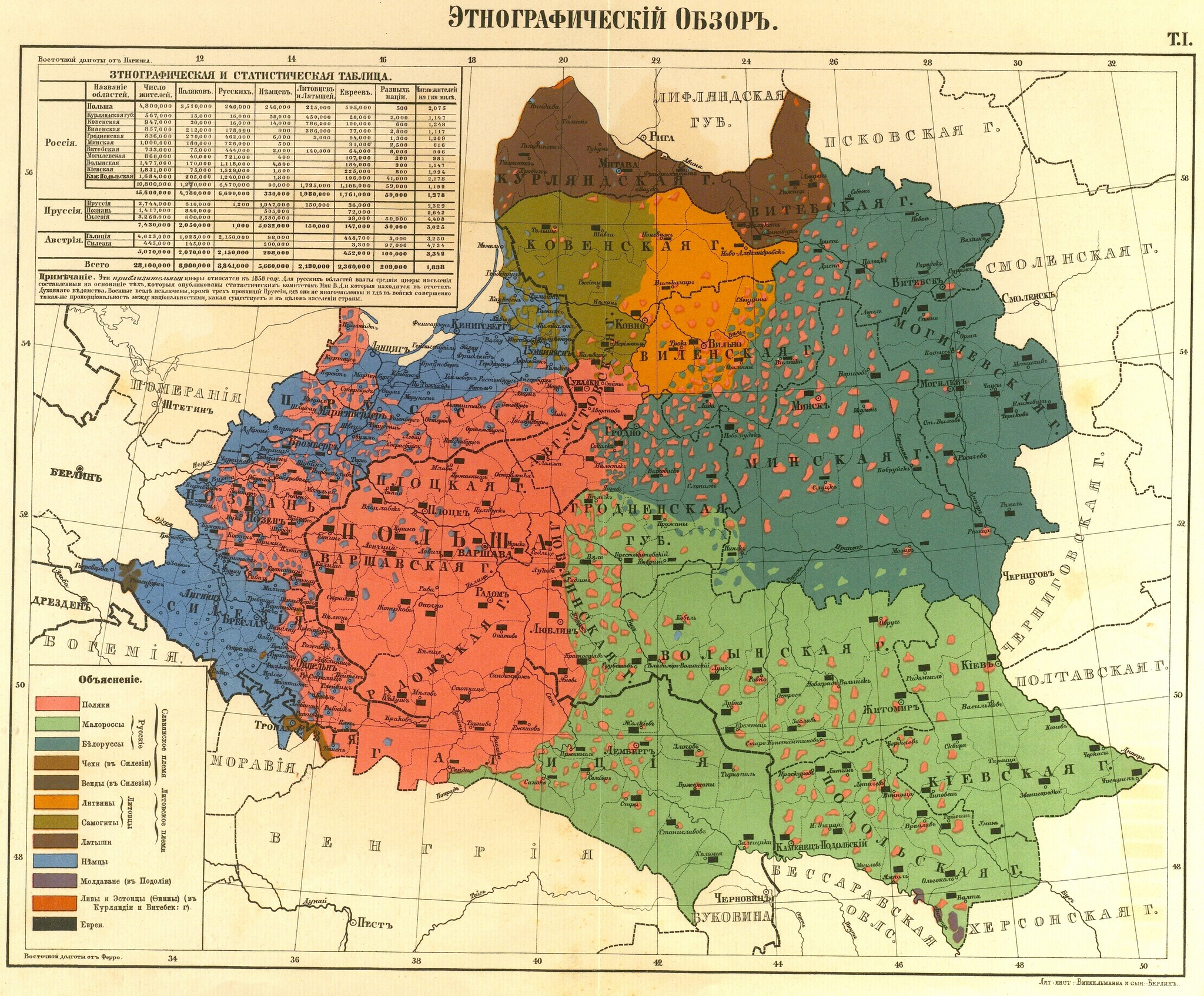 Ethnic composition of the westernmost parts of the Russian Empire according to Roderich von Erckert, Saint Petersburg, 1863.